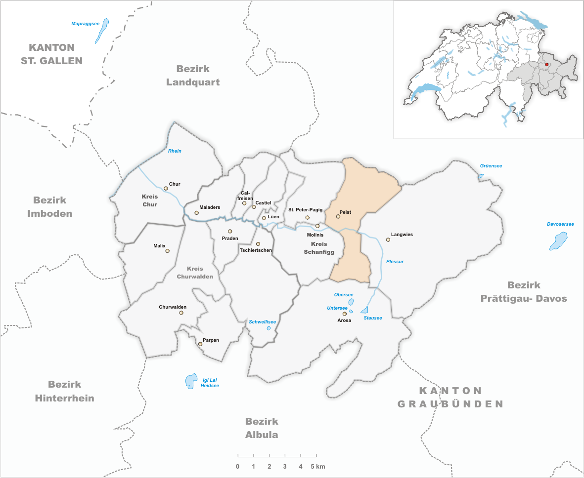 Municipality Peist